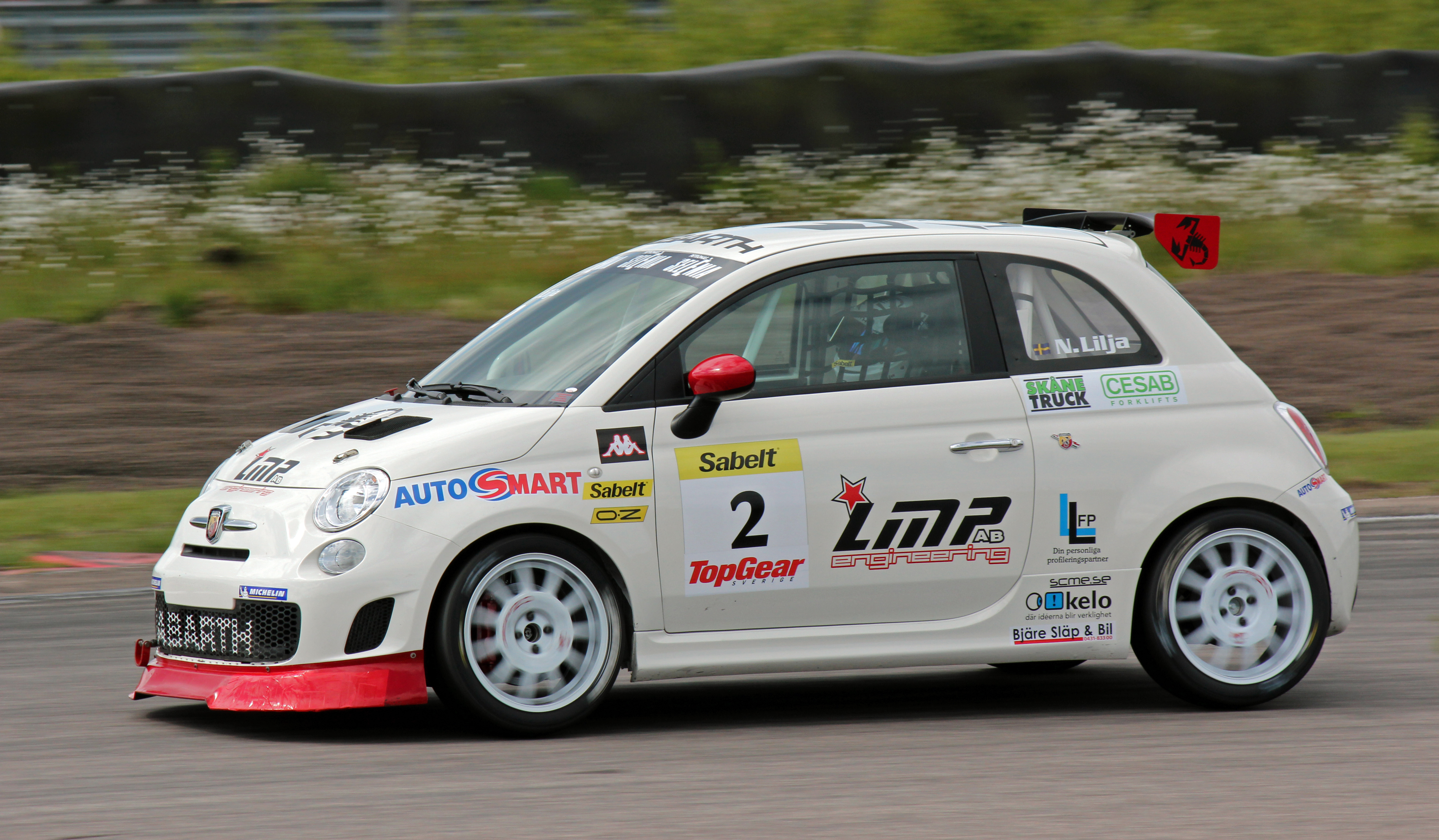 Niklas Lilja in Trofeo Abarth 500 Sweden at Anderstorp Raceway in 2012.